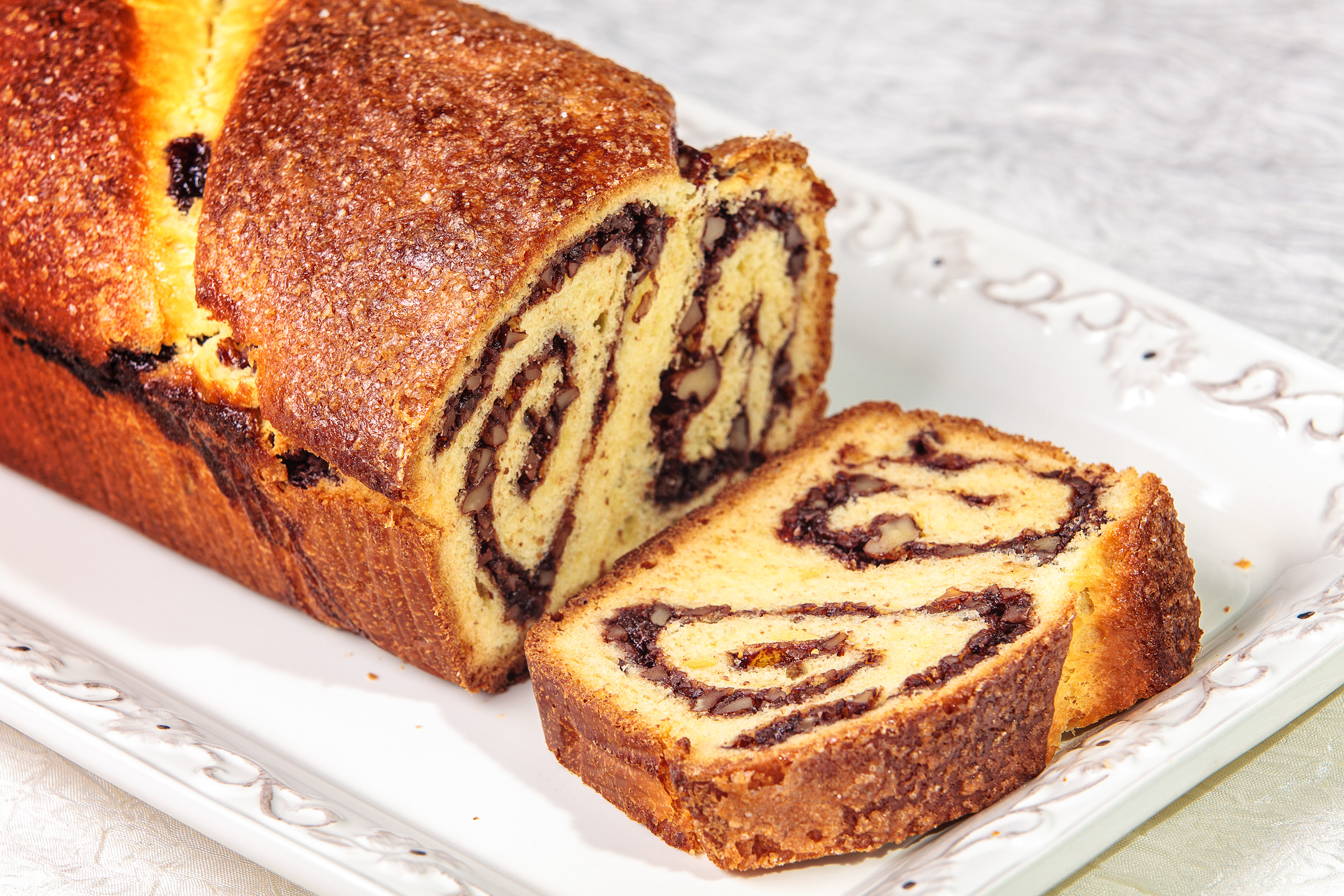 Walnut filled cozonac